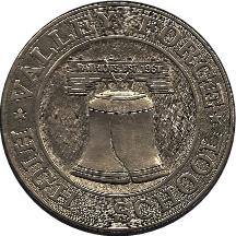 Scan of seal on cover of the 1967 Yearbook at Valley Forge High School, Parma Heights, Ohio